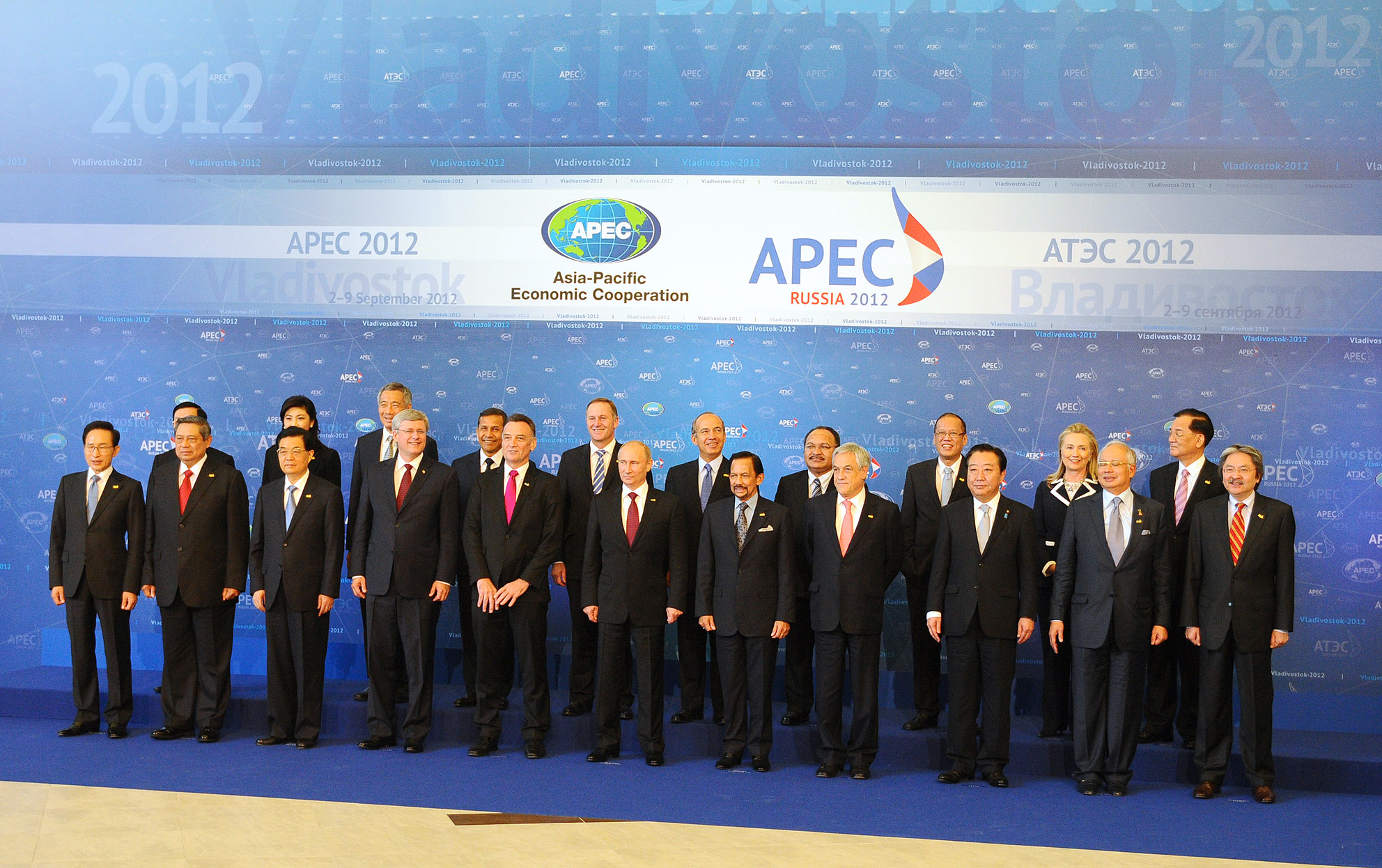 Official photo of the APEC leaders.